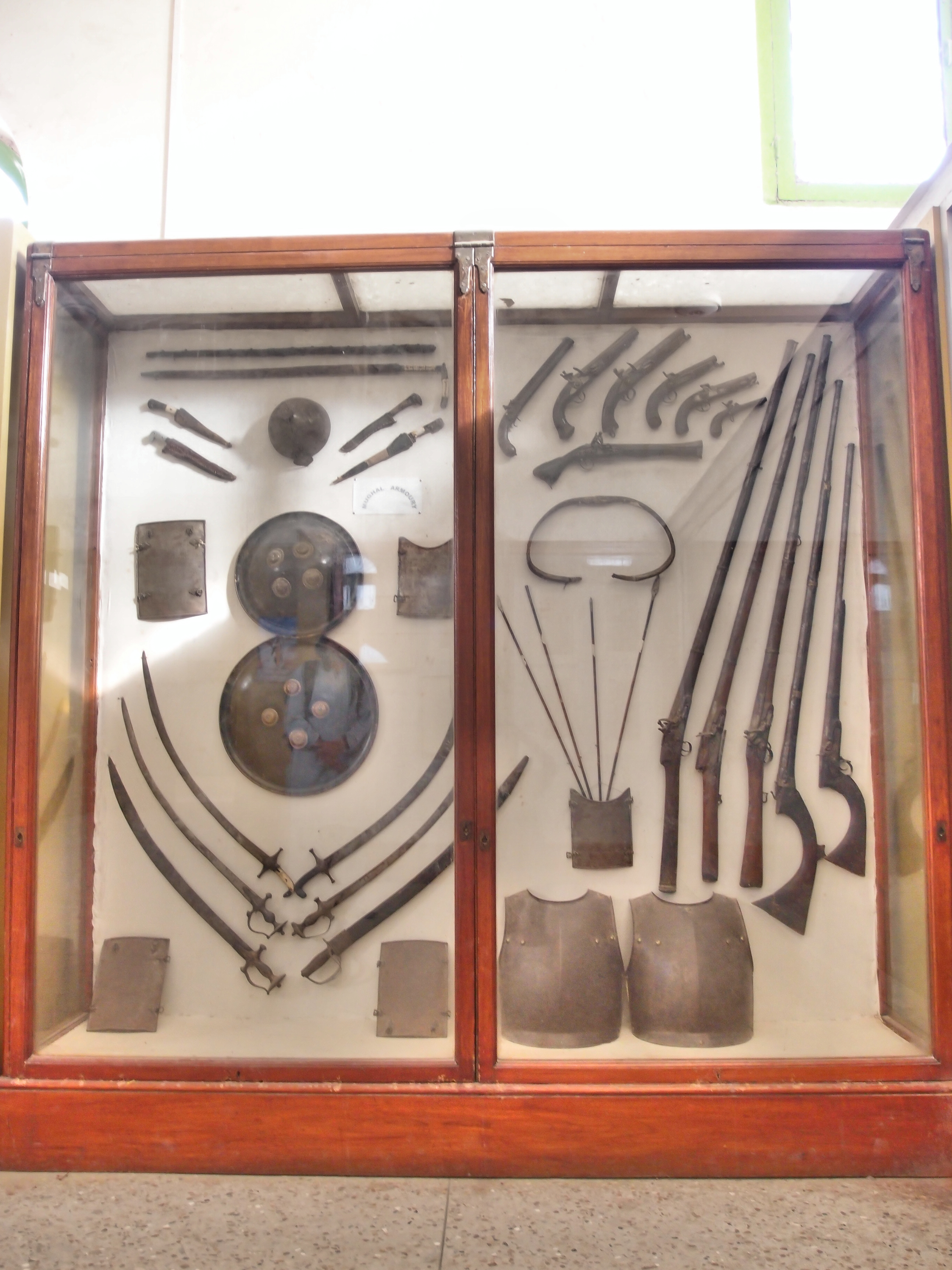 Umarkot museum inside view